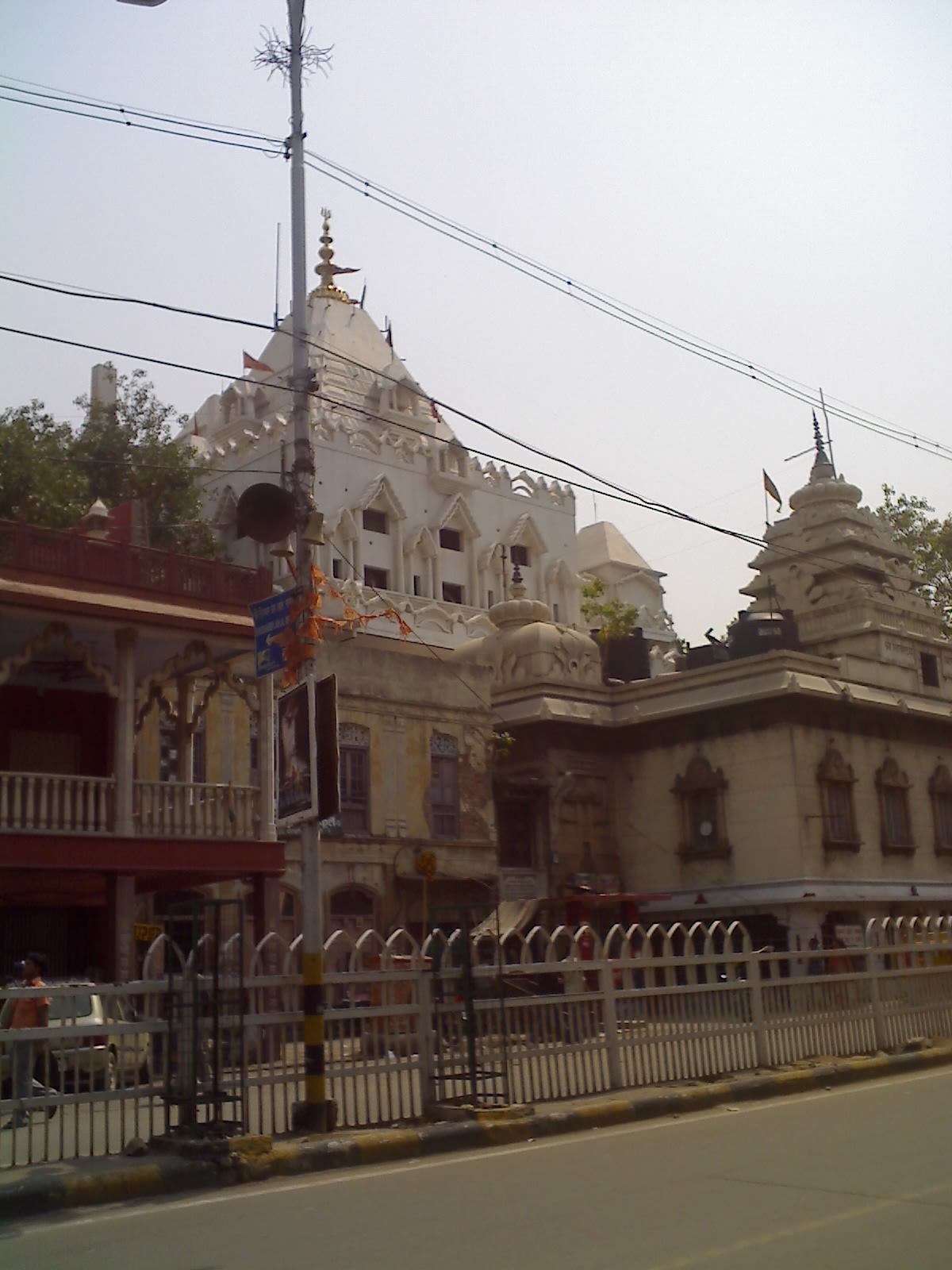 Gauri shankar mandir, chandni chowk